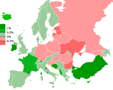 This is a map of Europe indicating growth/decline in population in 2006. Source: CIA world factbook.